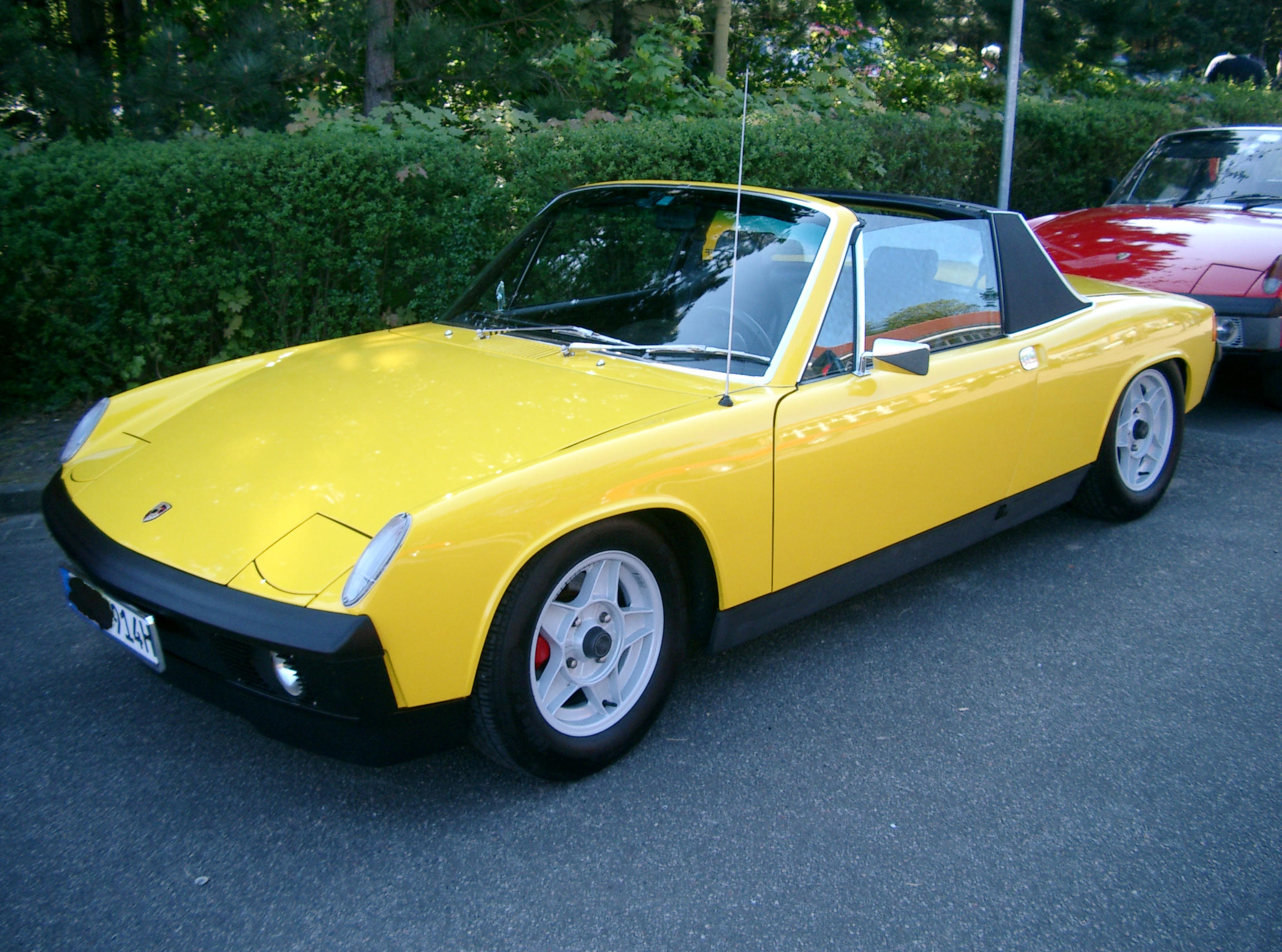 VW Porsche 914